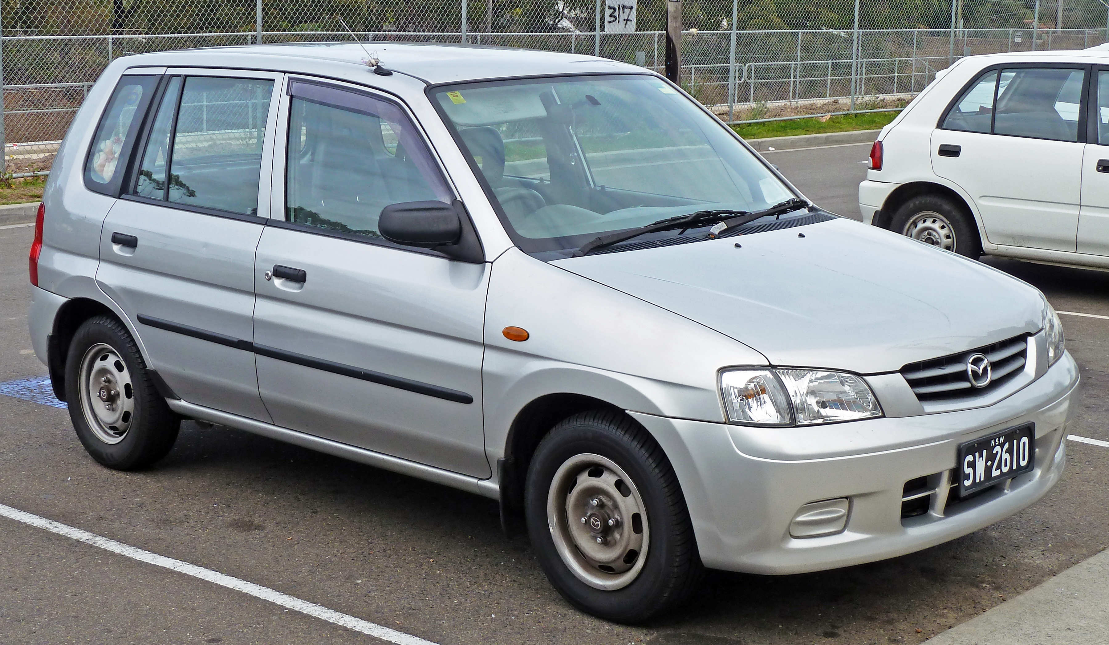 2000 Mazda 121 (DW Series 2) Metro Shades hatchback. Photographed in Kirrawee, New South Wales, Australia.